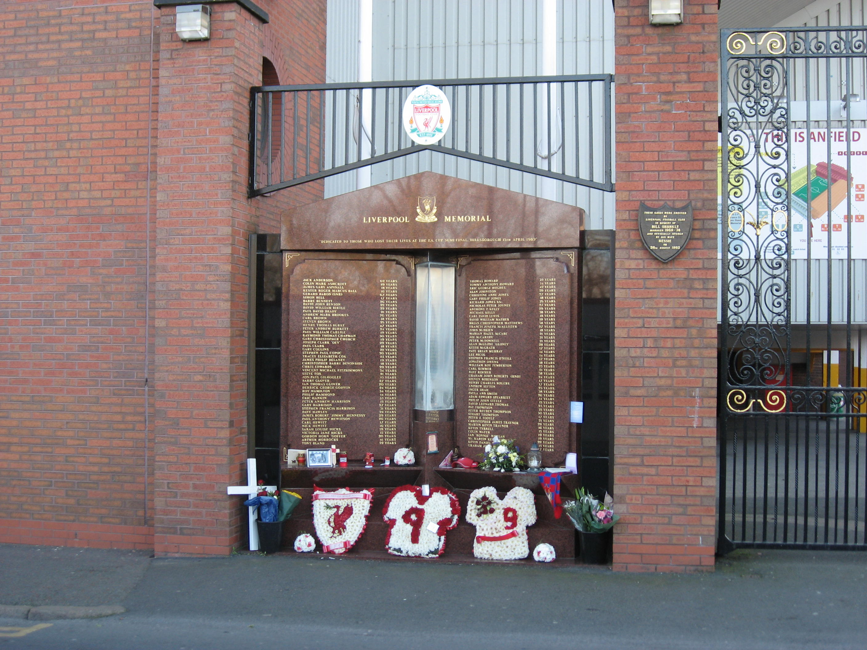 to remember...